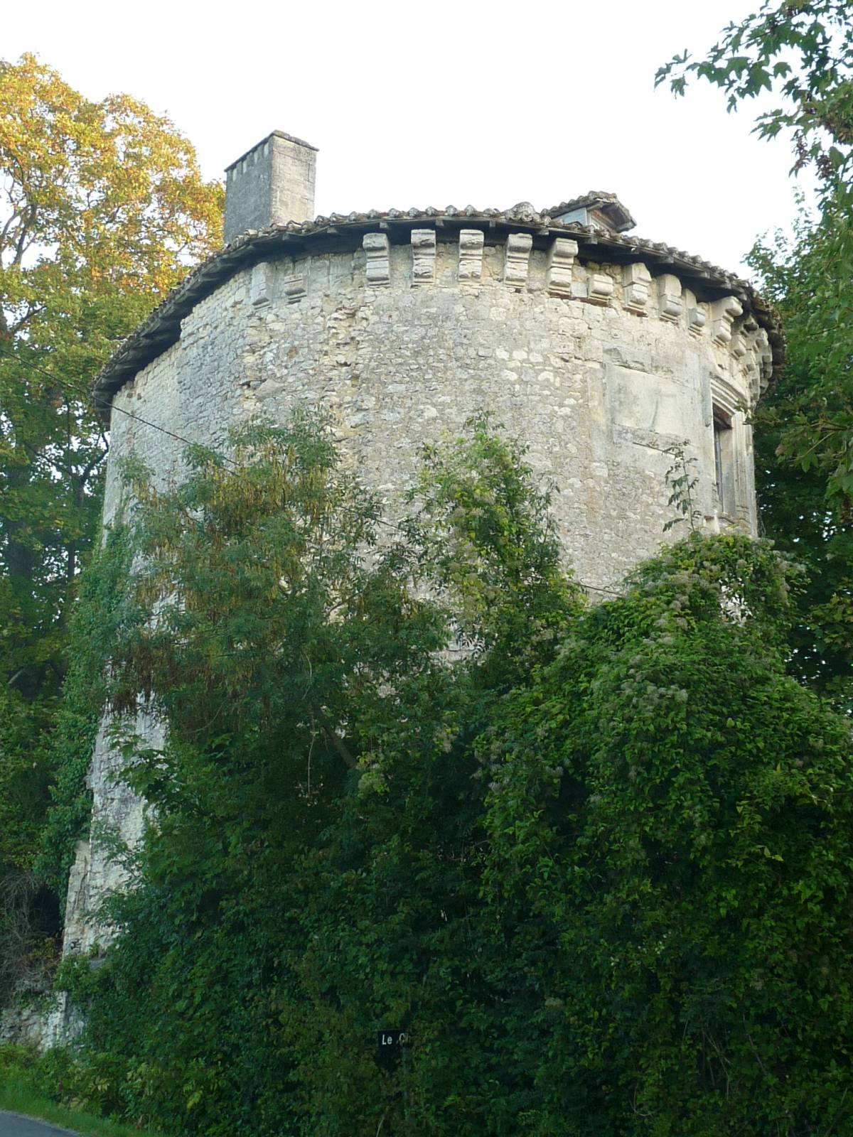 Tower of the former castle of Montausier, Baignes-Sainte-Radegonde, Charente, SW France